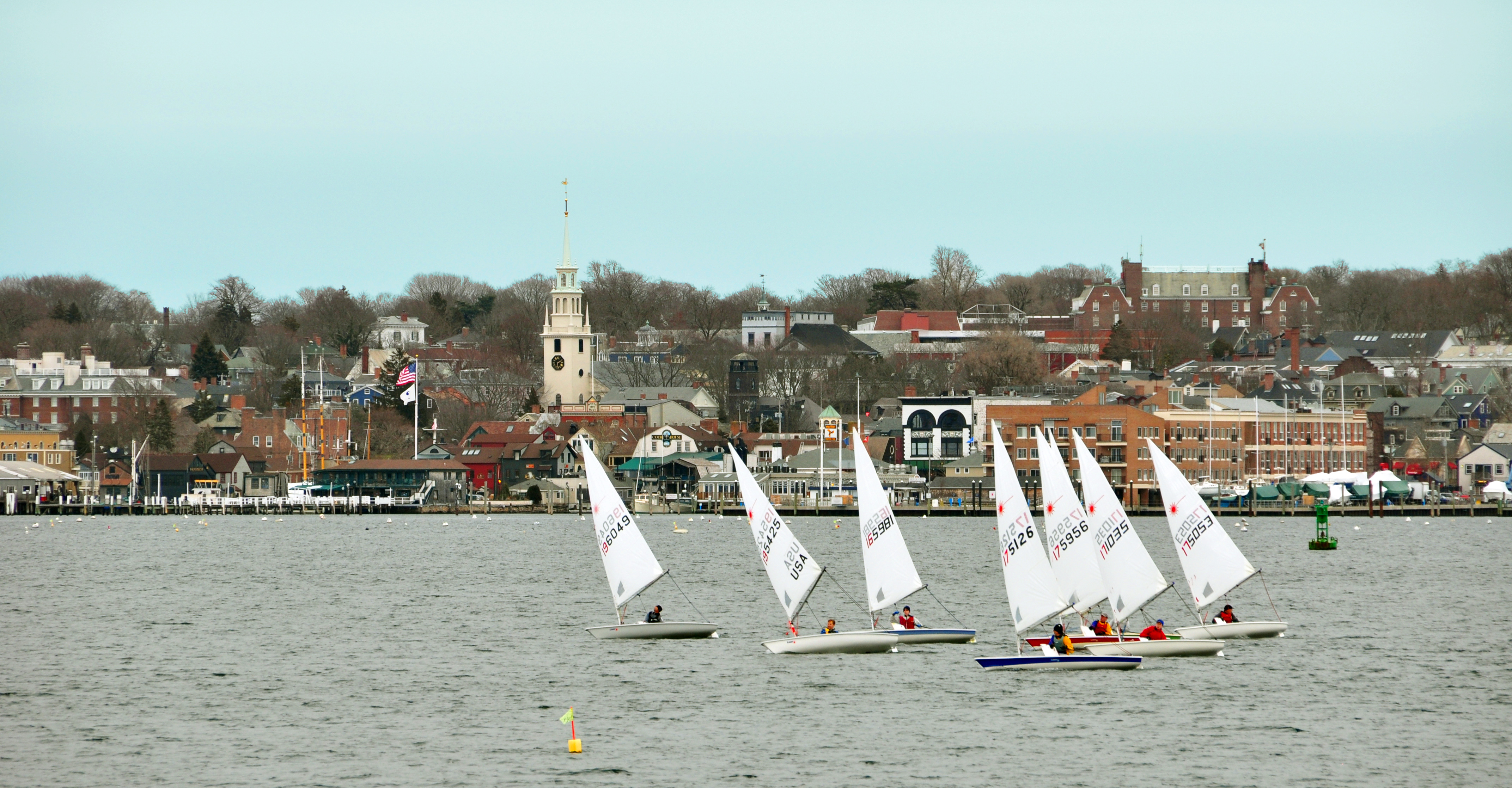 Newport Rhode Island sailing 2010